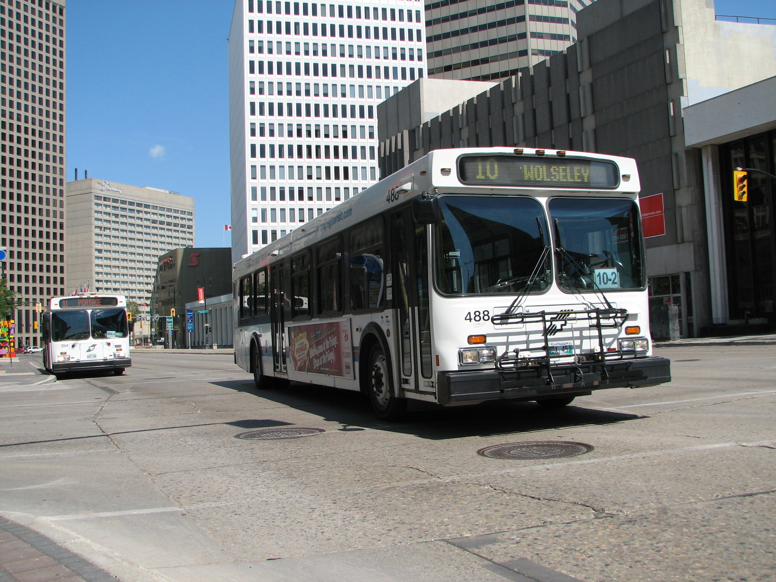 A route 10 bus makes its way down Portage Avenue on Canada Day 2008.